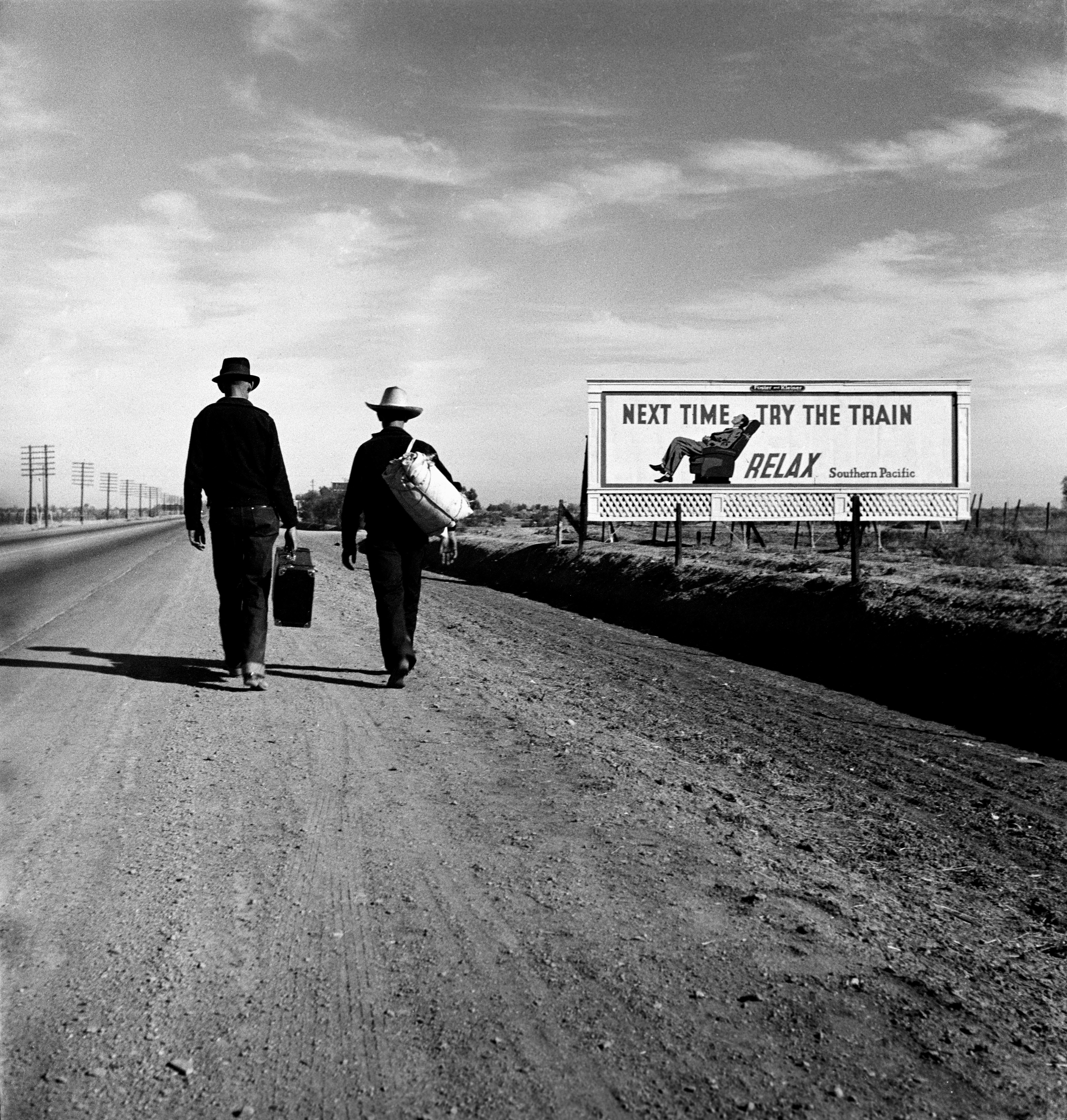 Photo shows two people walking along road near a billboard that says "Next time, try the train. Relax." Nitrate negative. 2 1/4 x 2 1/4 inches.